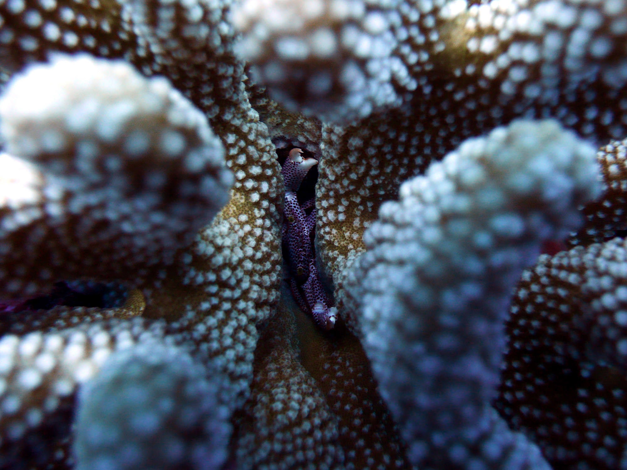 On the reef around the island of Ta‘ū, American Samoa, a spotted guard crab defends its home and food source, a cauliflower coral, from predators and investigative camera lenses.